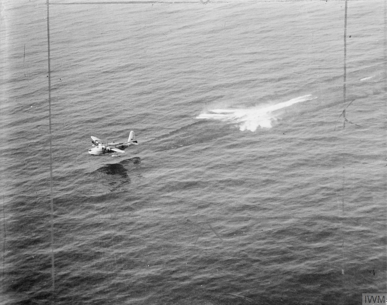 Royal Air Force 1939-1945- Coastal Command Sunderland EK573/P of No 10 Squadron RCAF 'unsticks' after picking up three survivors from a Wellington shot down in the Bay of Biscay, 27 August 1944. Despite a heavy swell - and the knowledge that many such landing attempts had ended in disaster - Flight Lieutenant W B (Bill) Tilley executed a successful rescue. The No 172 Squadron Wellington had crashed after being hit by return fire during an attack on U-534 the previous night.